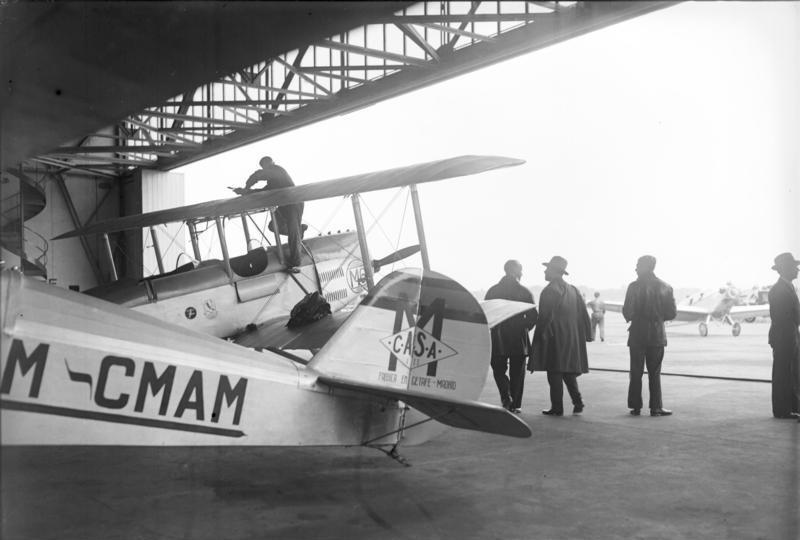 In a foreground is CASA-1, M-CMAM, start number T3, which did not take part in the competition due to late arrival (it flew the race off competition). In a background is Caudron 232, F-AJSX, start number M6, of Mac Mahon